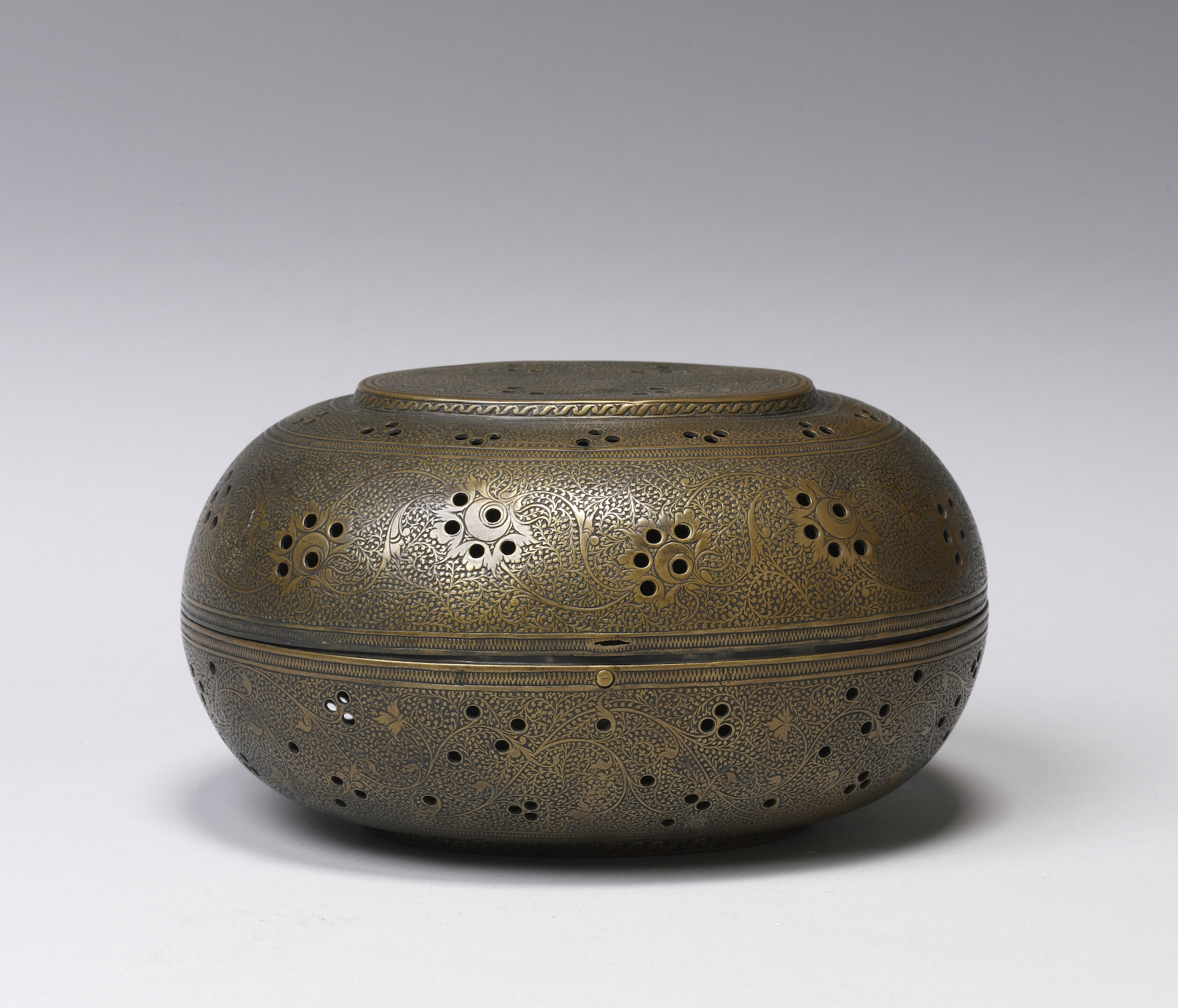 This box is a "pandan," a container for "betel"- thin slices of the nut of the areca palm mixed with spices and lime paste made from ground seashells and wrapped in a leaf of the betel tree. Betel, chewed after meals to help with digestion, was very popular in the Punjab region. This box is inscribed with the name of its owner, Abu'l-Kharid Nur al-Hasan Khan.